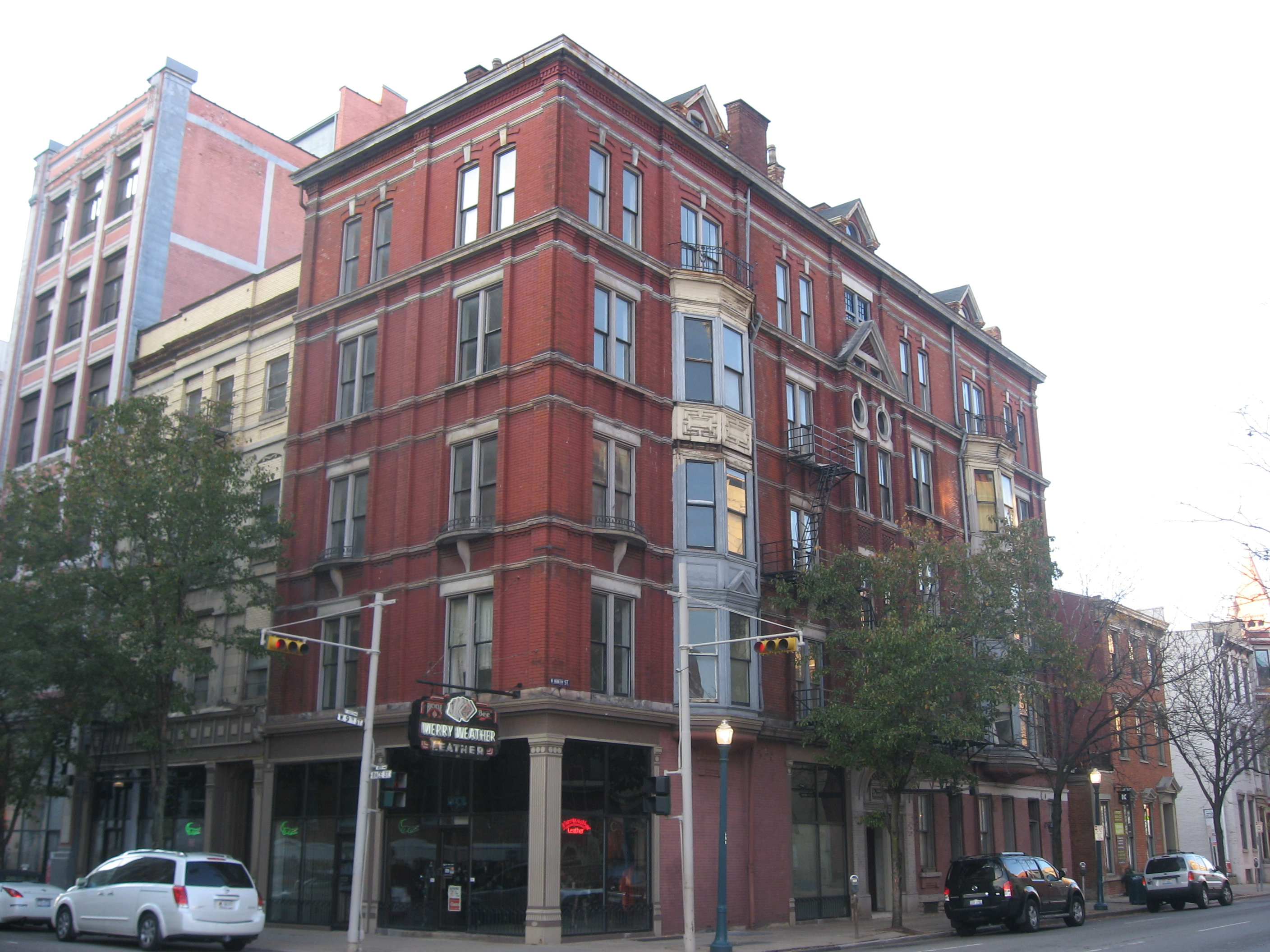 Front and side of the Saxony Apartment Building, located at 105-111 W. Ninth Street in downtown Cincinnati, Ohio, United States. Built in 1891, it is listed on the National Register of Historic Places, and it is part of a Register-listed historic district, the Ninth Street Historic District.